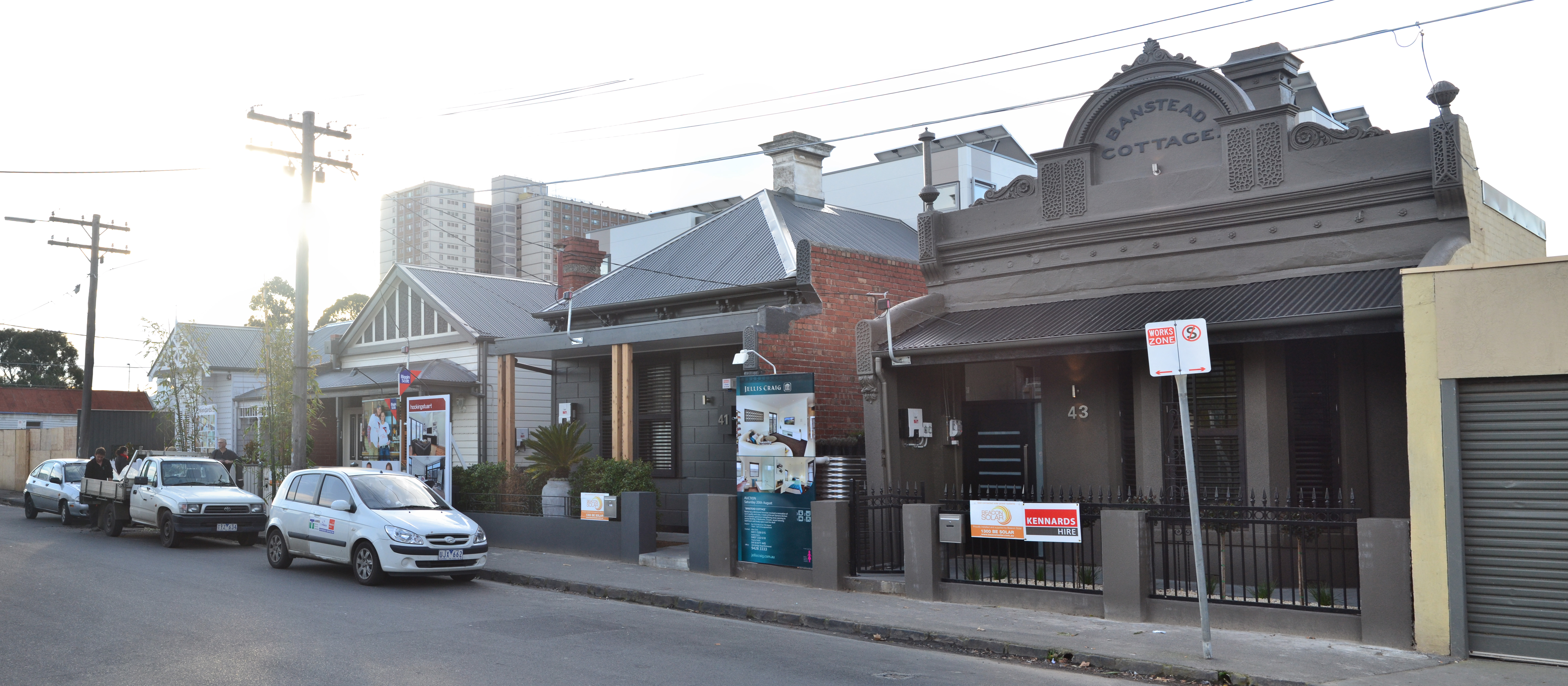 A view of 37-43 Cameron Street Richmond, the houses which were renovated on the fourth series of the popular Australian Reality Television series "The Block".